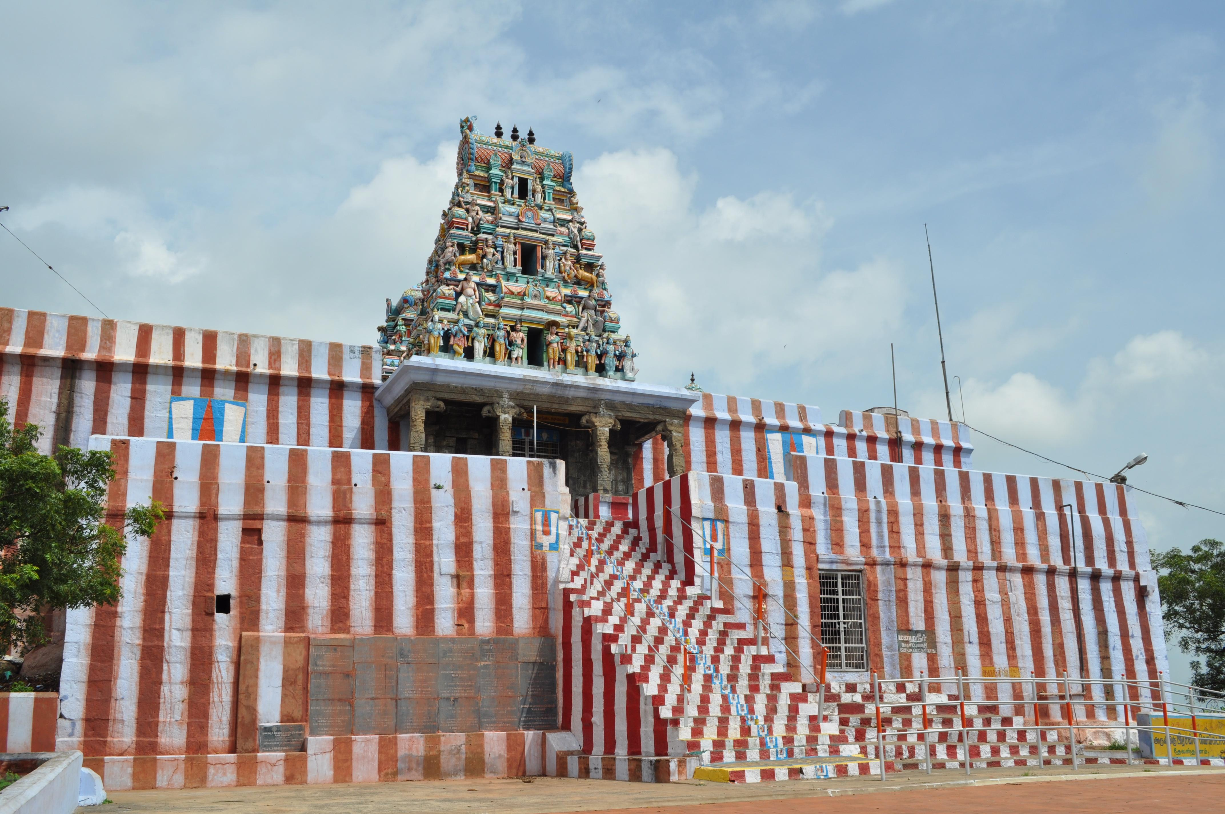 Prasana Venkatachalapathy temple, Hills top